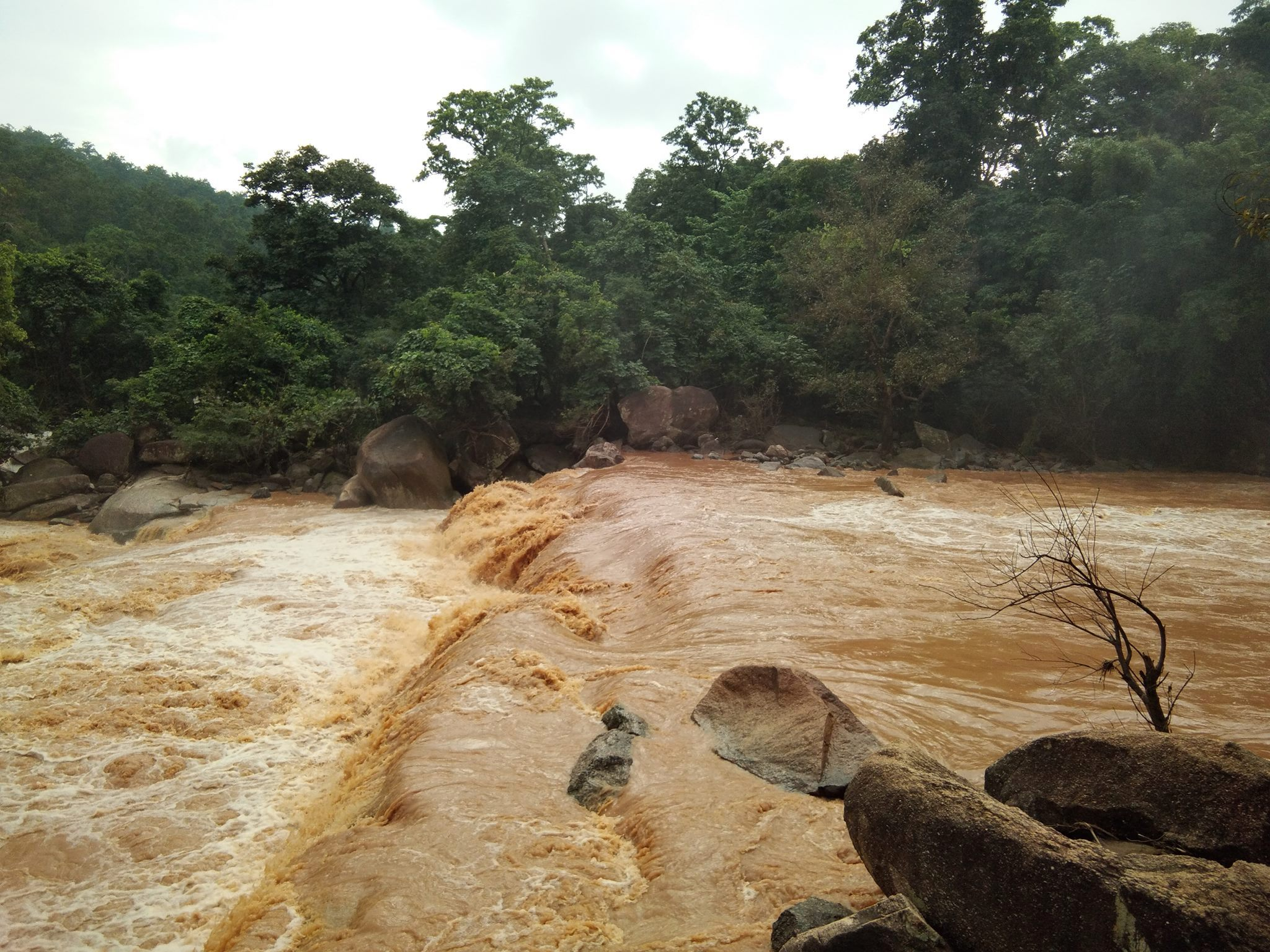 Eb river which is originating from northern region of jasphur district